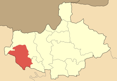 Locator map of Goumenissas municipality (Δήμος Γουμένισσας) at Kilkis perfecture, Greece.